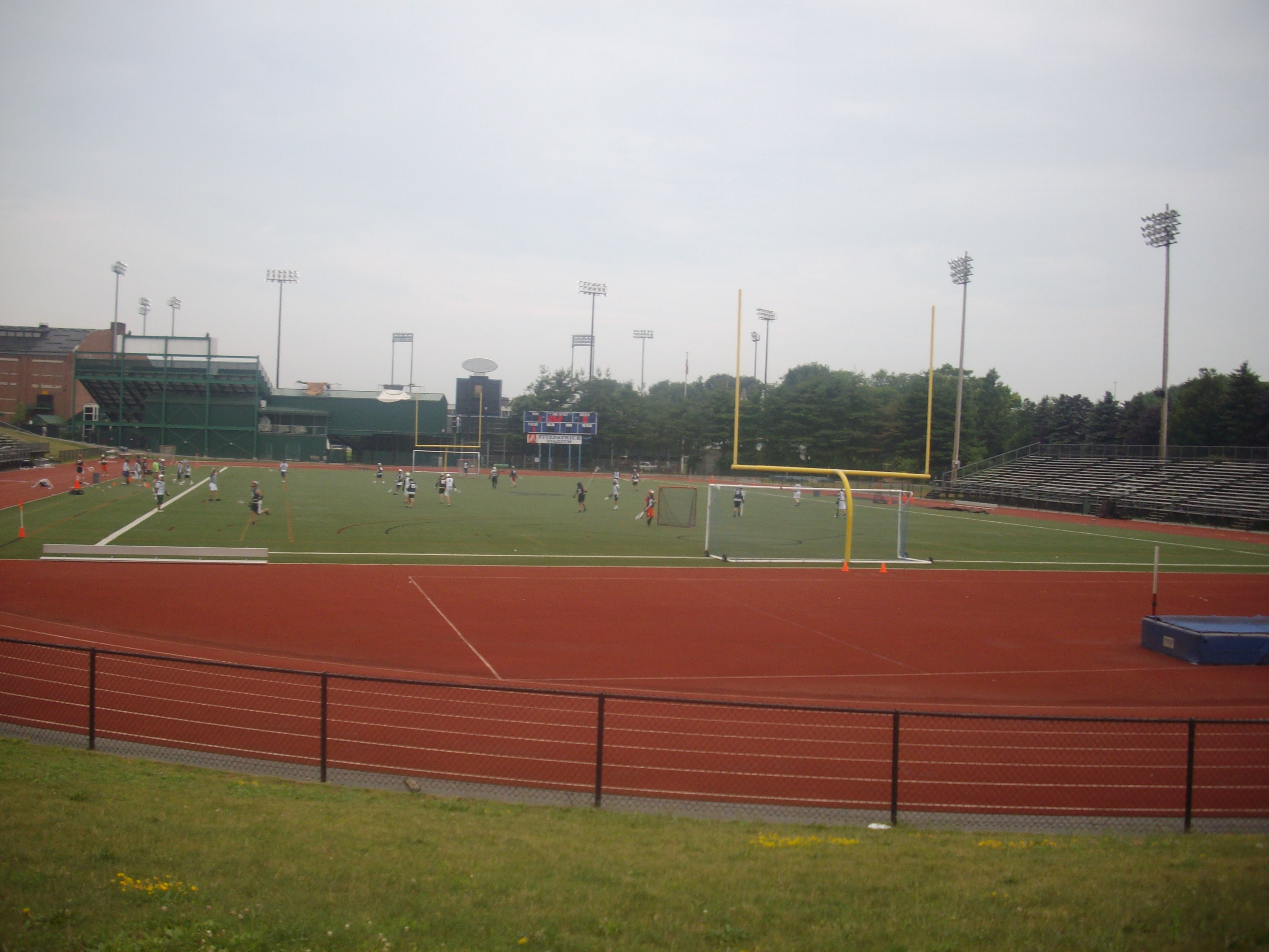 Fitzpatrick Stadium in Portland, Maine in July 2008